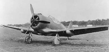 North American P-64